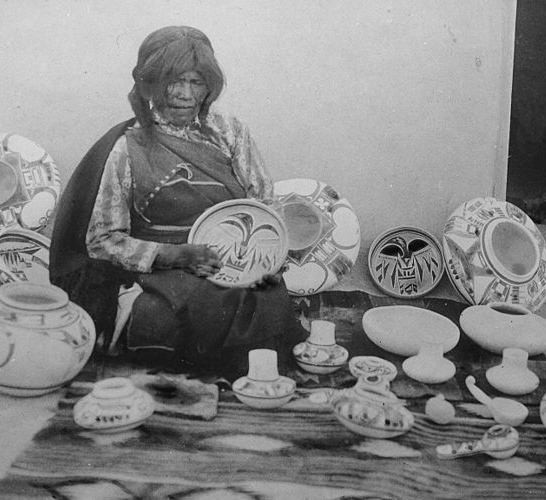 Nampeyo, Hopi pottery maker, seated, with examples of her work, 1900. Henry Peabody. Cropped image